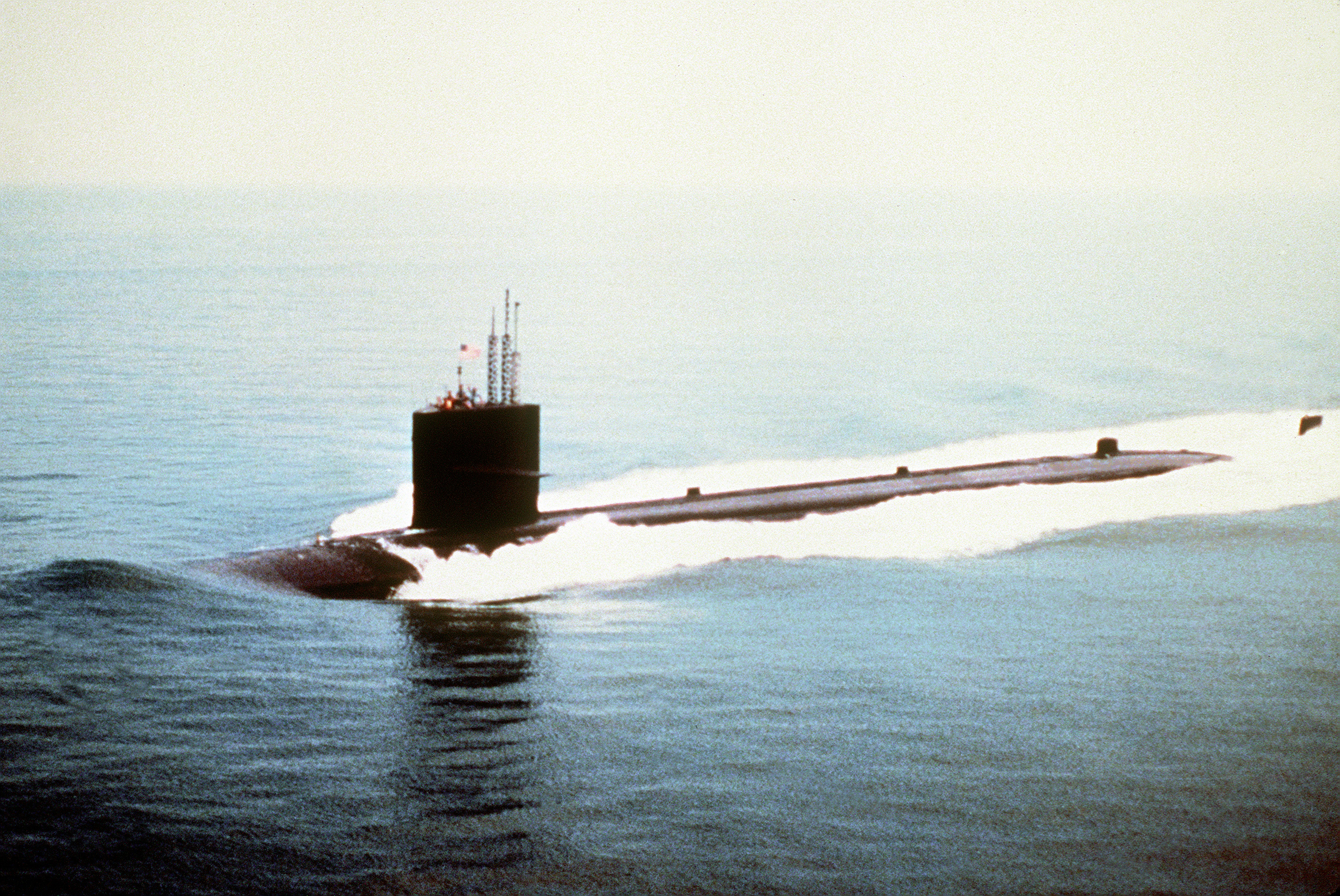 An aerial port bow view of the nuclear-powered attack submarine USS GLENARD P. LIPSCOMB (SSN-685) underway. (DN-SC-86-00549)